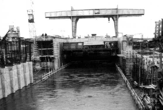 Works at the Rincon de Baygorria Dam (central Uruguay) during the floods in 1959.